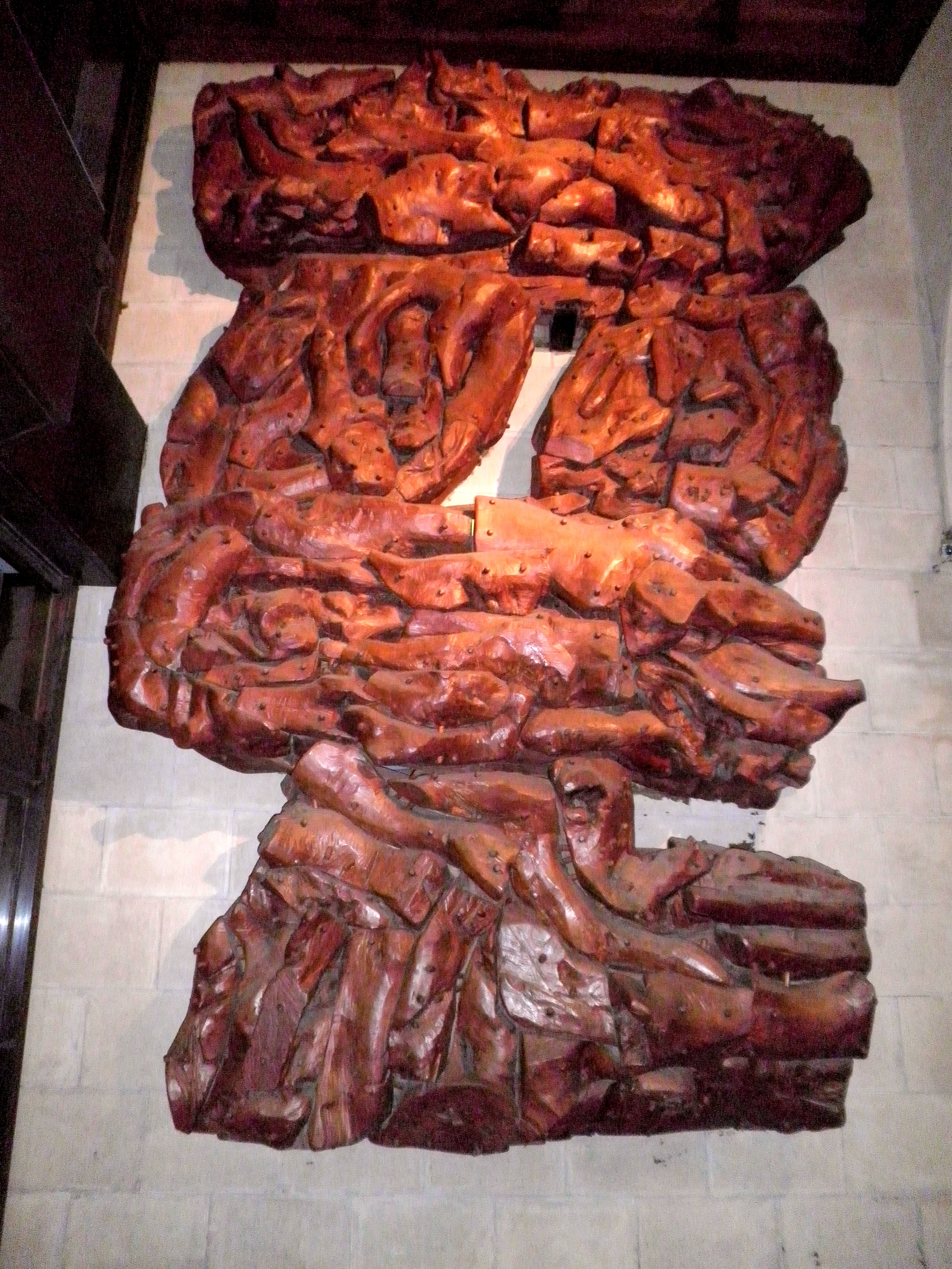 Remigio Mendiburu's sculpture in Kutxa hall, Garibai street, Donostia.